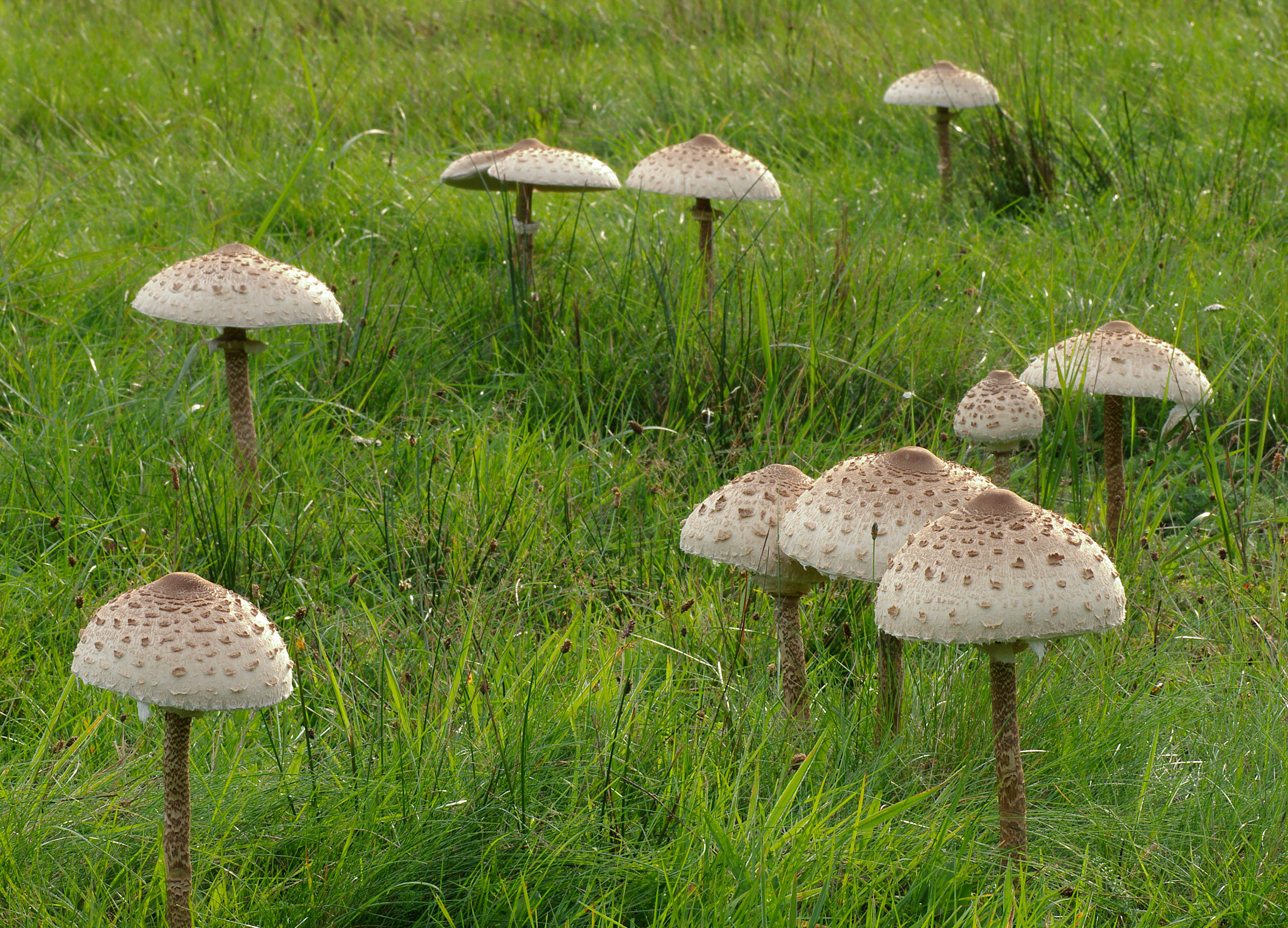 The Parasol Mushroom, Macrolepiota procera — aspect of a group of fruiting bodies in a meadow.